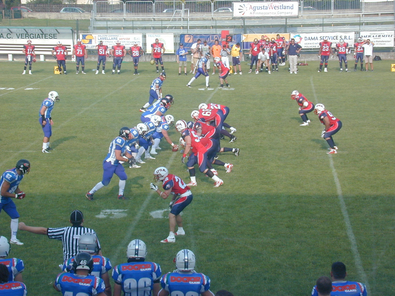 Photography of the line of scrimmage prior to a play (2nd down) at the test match between Italy and Team Eagles on 10 July 2010 in Vergiate, Italy. Final score: Italy 20 - Team Eagles 0